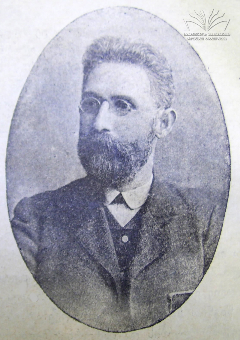 Silibistro Jibladze